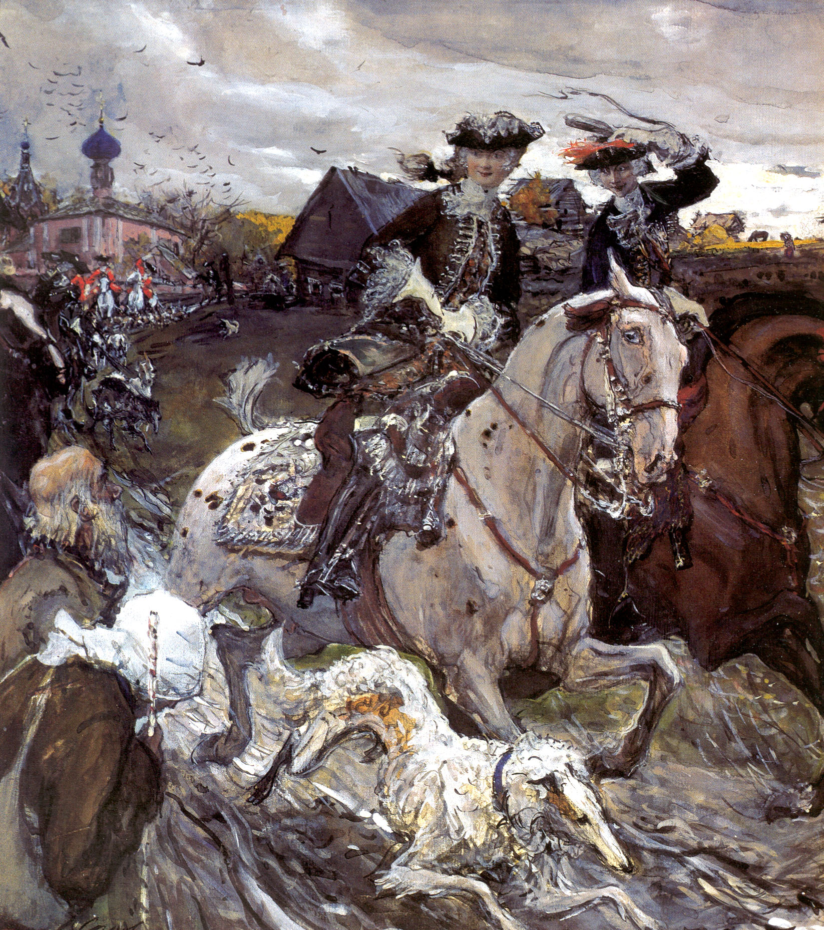 Peter II and Princess Elizabeth Petrovna Riding to Hounds. 1900. Tempera on cardboard. The Russian Museum, St. Petersburg, Russia.